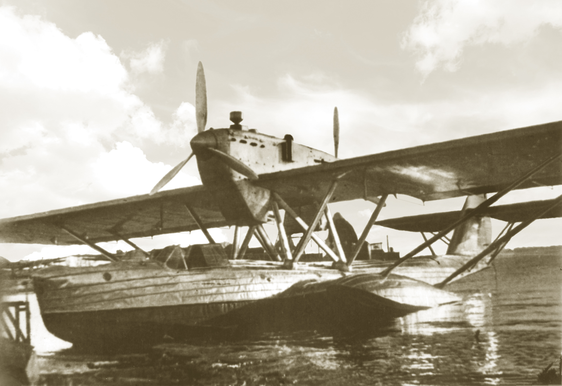 Bartini DAR Arctic reconnaissance seaplane